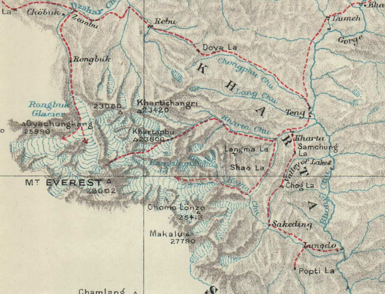 Map I from Howard-Bury, C. K. (1922). Mount Everest the Reconnaissance, 1921 (1 ed.). New York, Longman & Green